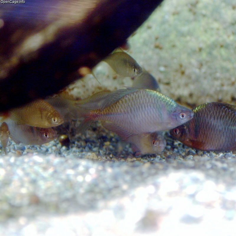 Tokyo bitterling Tanakia tanago (Tanaka, 1909) . at Nagoya Higashiyama Zoo and Botanical Gardens, Japan.